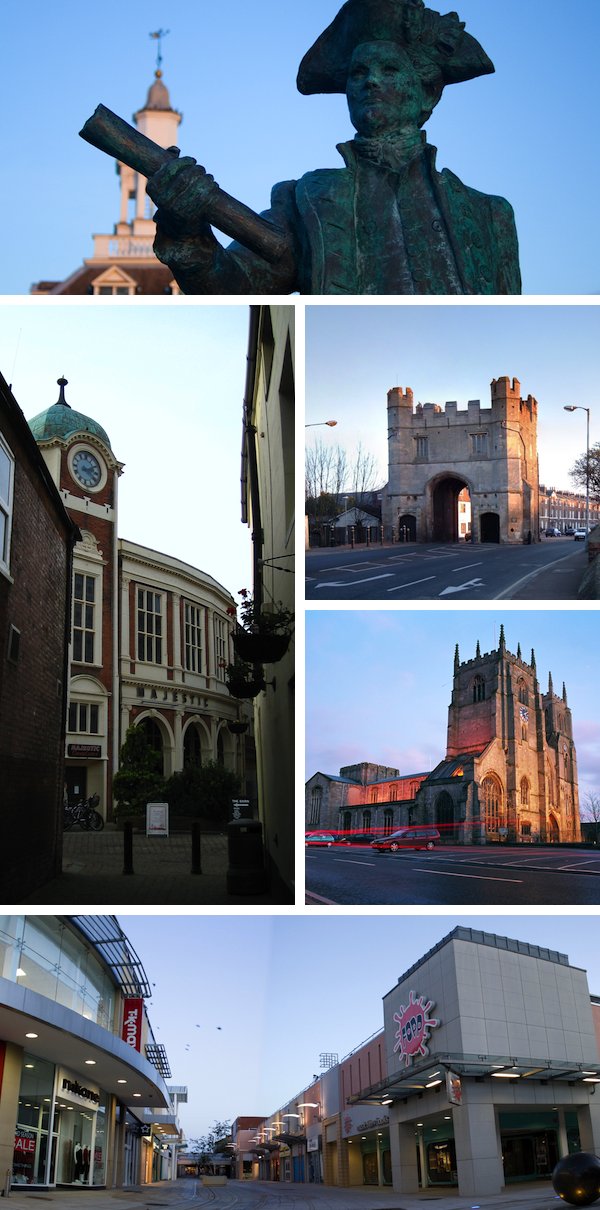 George Vancouver statue in King's Lynn, Norfolk. The Majestic Cinema in King's Lynn. King's Lynn South Gate The South Gate is part of the remains of King's Lynn's old town wall. St Margaret's church in King's Lynn. Modern Centre of King's Lynn, Norfolk, UK